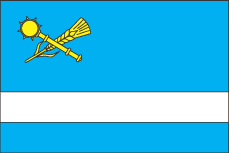 Flag of Petrove Raion, Kirovohrad Oblast